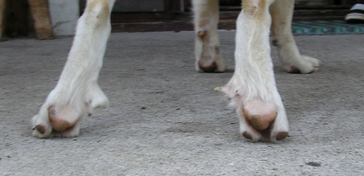 Icelandic sheepdog. Female. Short haired. Creme and white. Close up showing the double spurs on hind paws.